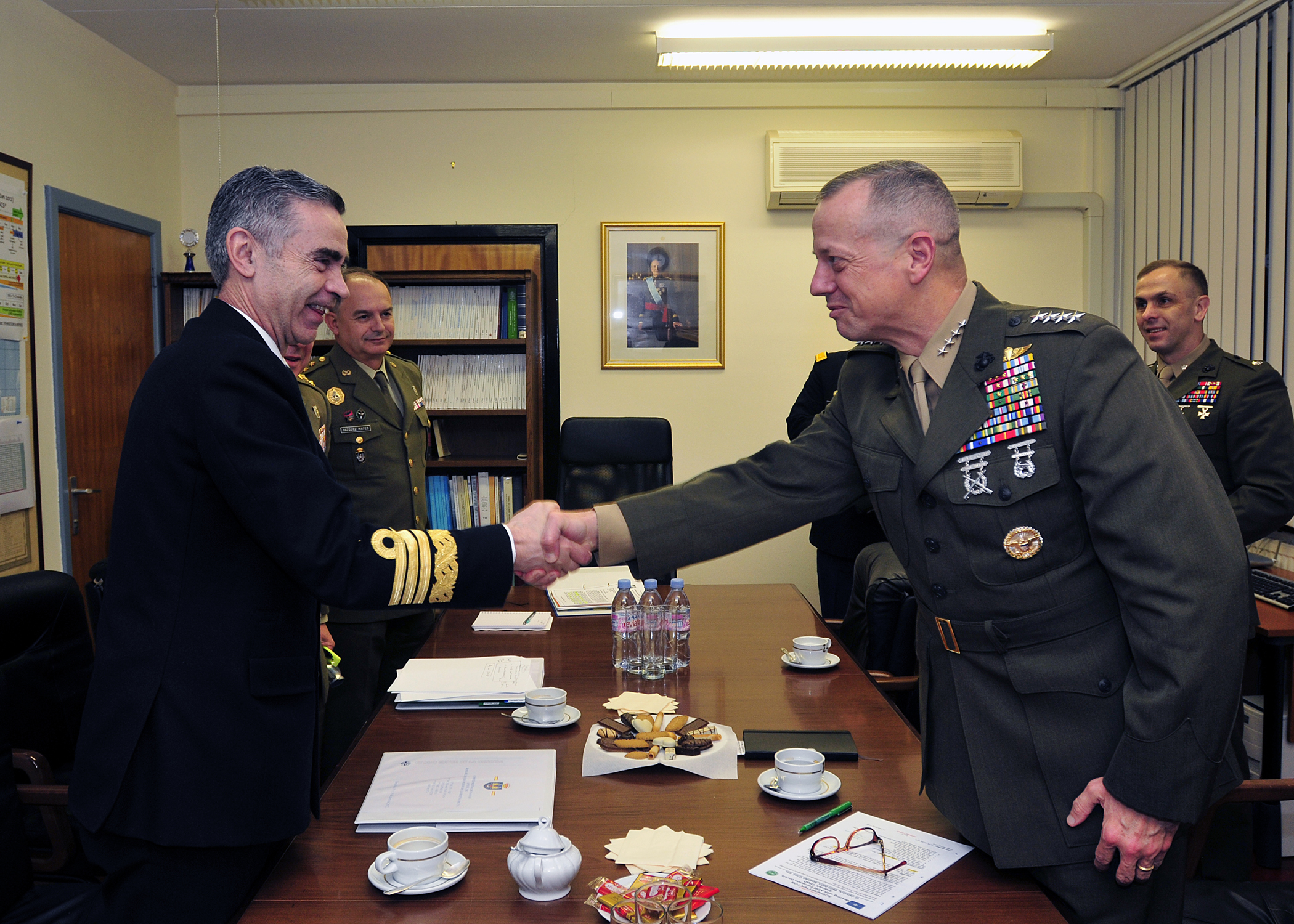 NATO Headquarters, Belgium – International Security Assistance Force commander Gen. John R. Allen meets with Spanish Chief of Armed Forces Navy Admiral Fernando Garcia-Sanchez in Brussels, Belgium, Jan. 19. Garcia-Sanchez is the newly appointed Spanish chief of defense. The two spoke about the Spanish contributions to the Afghanistan campaign. (U.S. Army Photo/ Master Sgt. Kap Kim) (released)